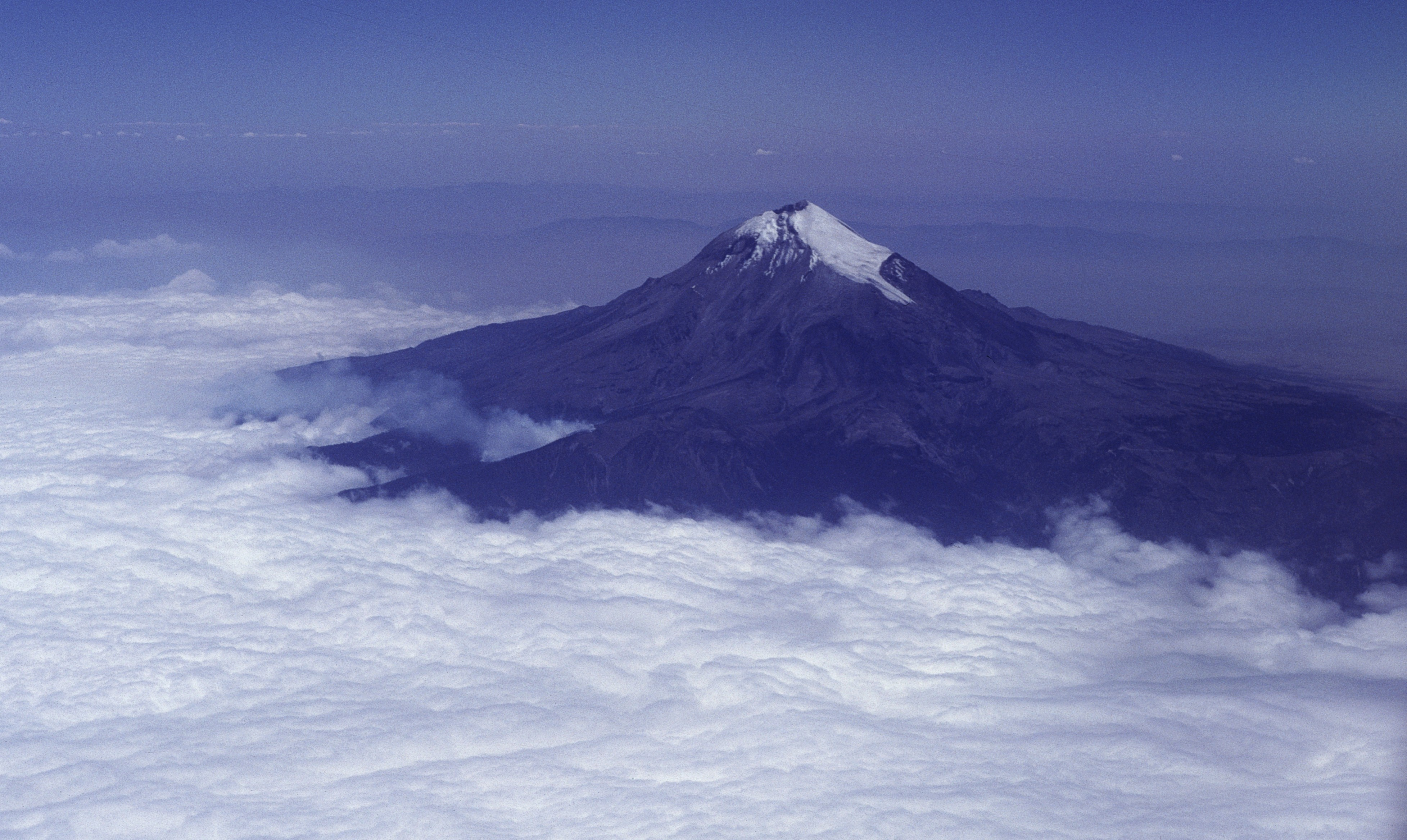 Pico de Orizaba, Mexico: aerial view